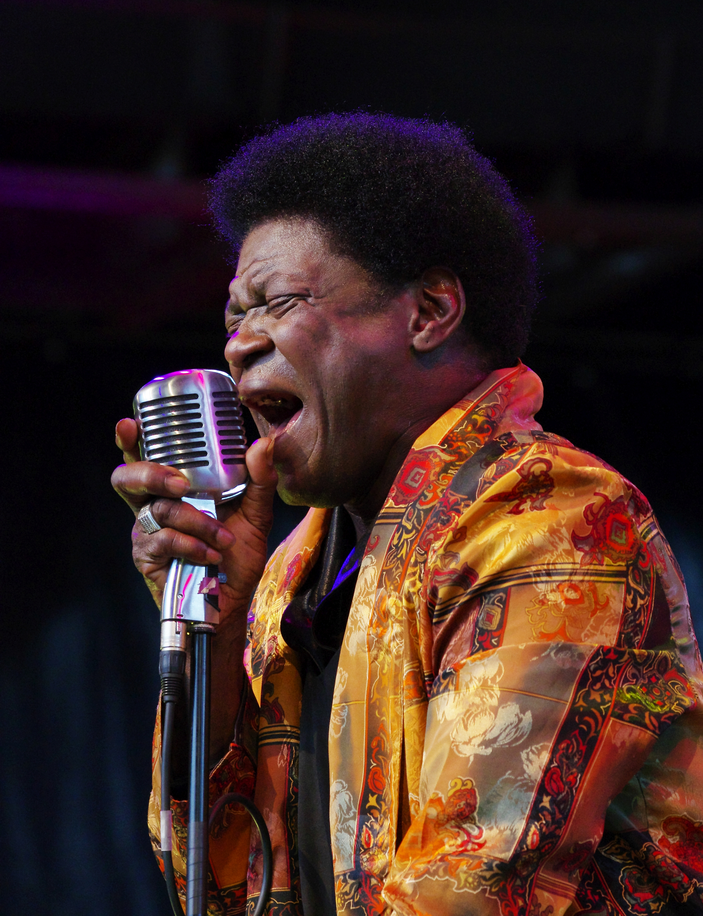 Charles Bradley at the Dreamtime Festival 2013